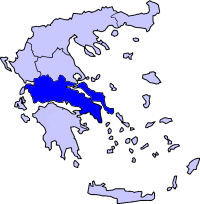 Central Greece location.